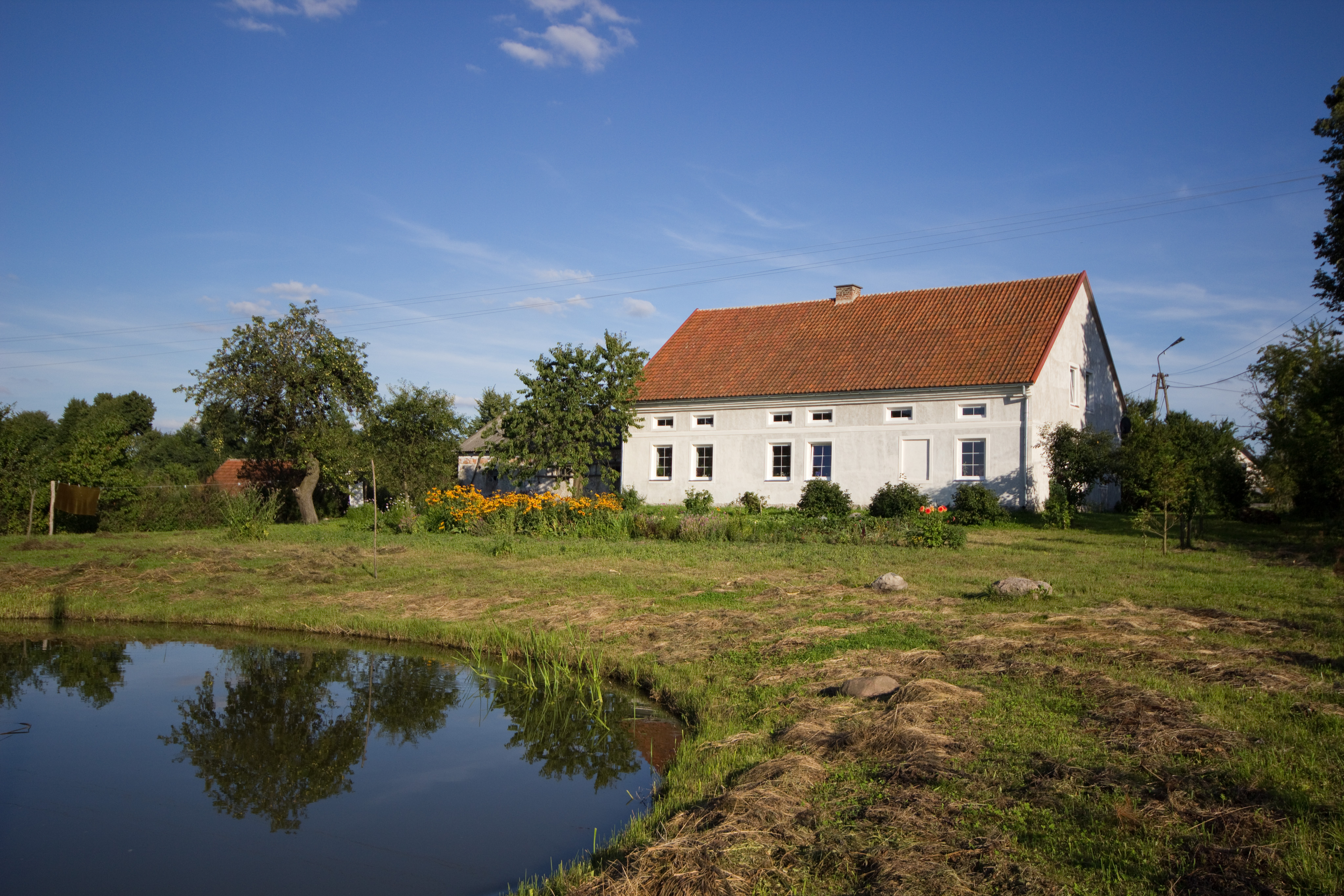 Samolubie, gmina Kiwity, powiat lidzbarski, Warmian-Masurian Voivodeship